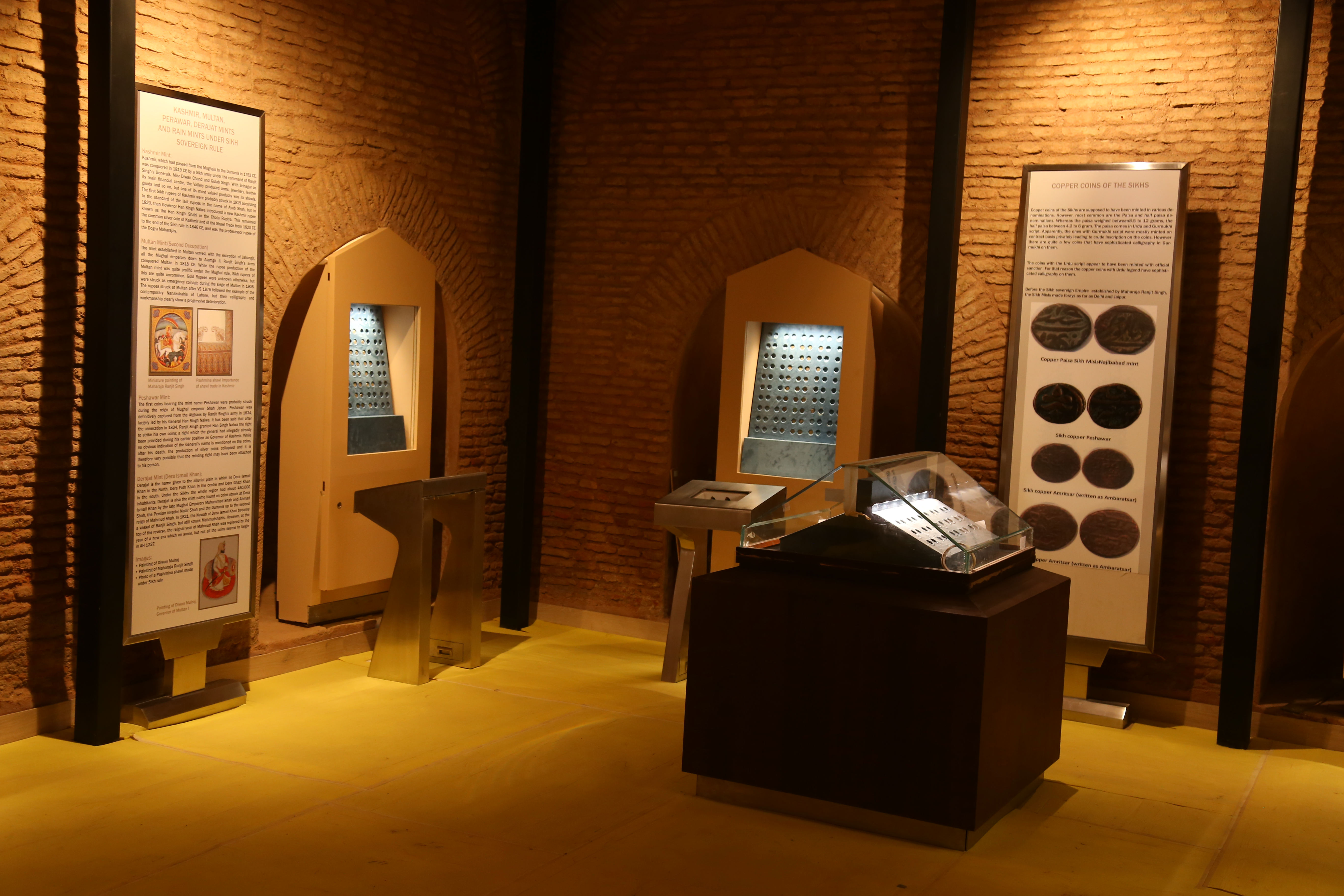 The Toshakhana, inner view.